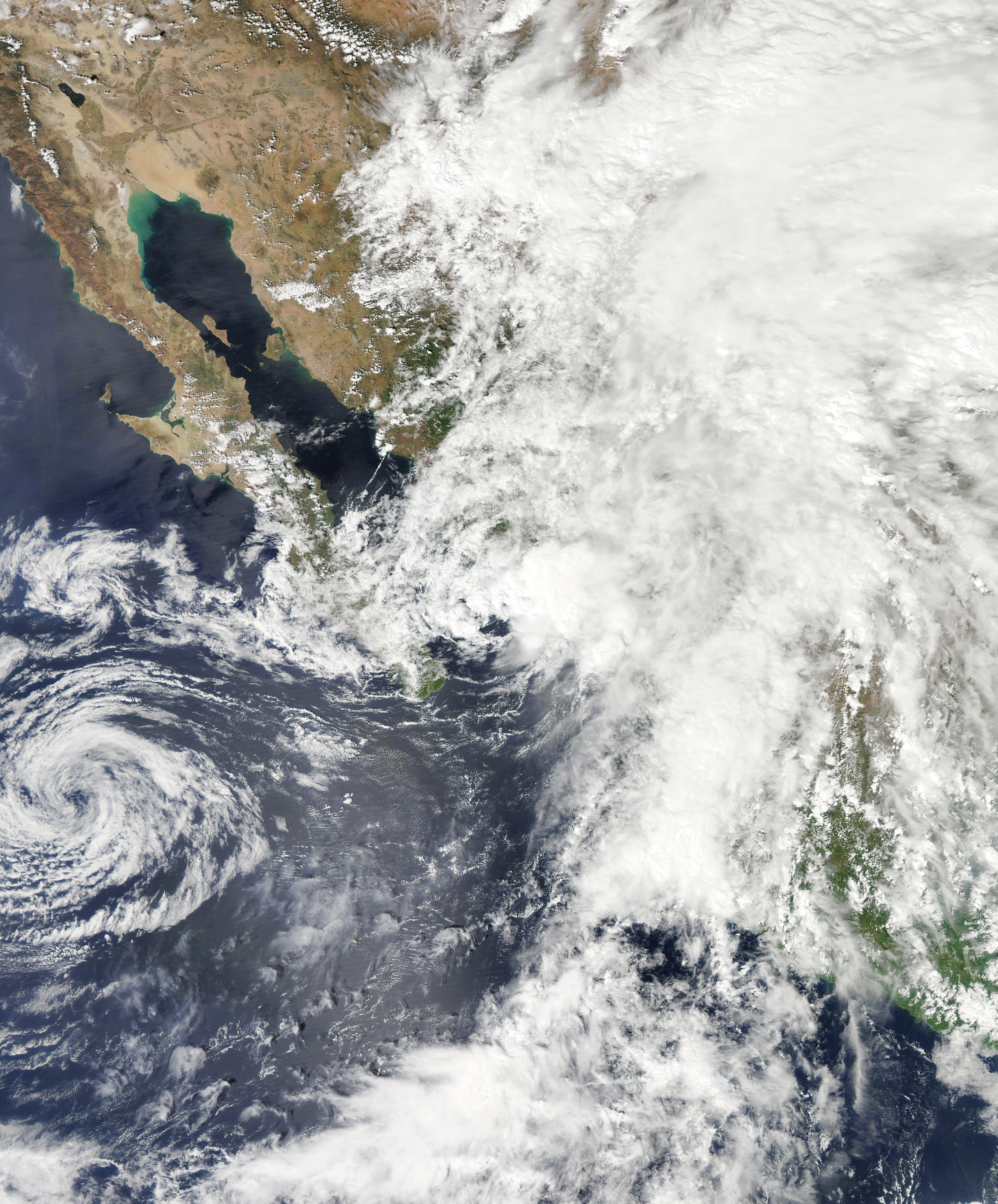 Tropical Storm Norman on September 28, 2012 nearing landfall.- Norman was the fourteenth named storm of the season, forming from a disturbance that formed off the coast of Mexico. The disturbance moved to the north and became Norman on September 28.